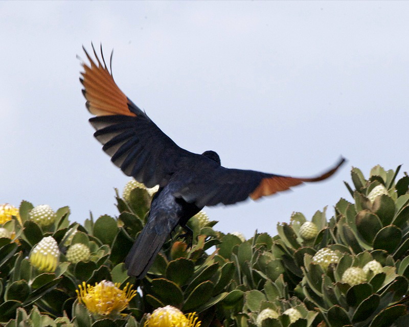 Red-winged Starling Onychognathus morio Nominate race - Onychognathus morio morio Cape of Good Hope, South Africa 7th. October 2009 Distribution: ssp 690V6207